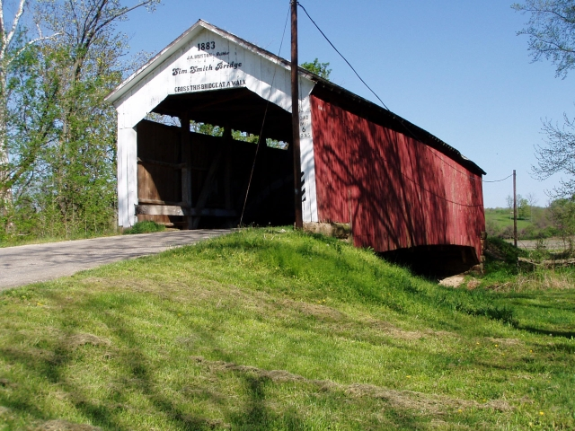 West portal of the Sims Smith Covered Bridge, Parke County, Indiana